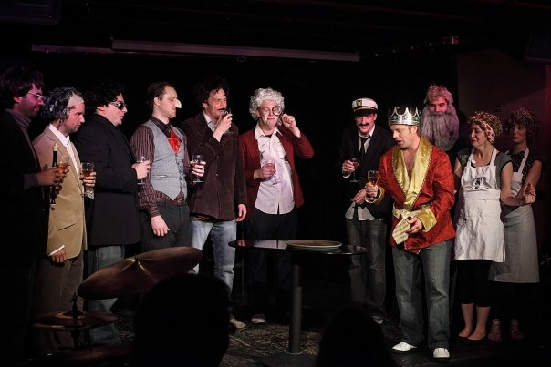 Sunday Night Live with The Sketchersons and host Kayla Lorette, August 16th, 2009 at Comedy Bar, Toronto.